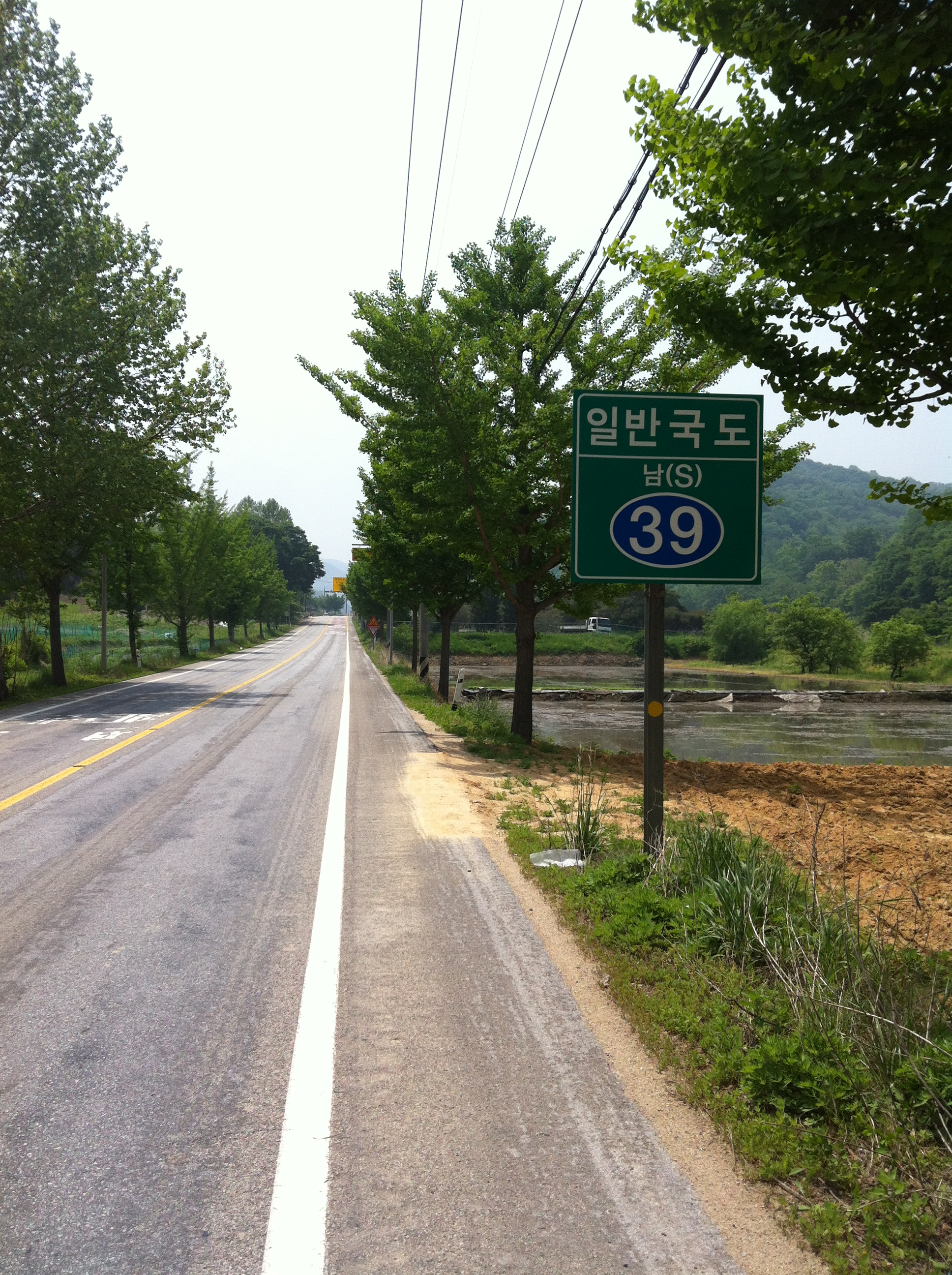 Korea Nationl Route 39 at Gongju, Chungcheongnam-do